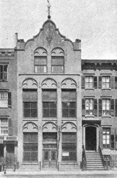 Jackson Square Branch of the New York Free Circulating Library. Built by George W. Vanderbilt in 1888. Harry M. Lydenberg's History of the New York Public Library of 1923 (illustration caption between pp. 208 and 209) gives the address as 251 W. 13th St.